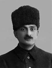 Hakkı Behiç Bey (Bayiç)